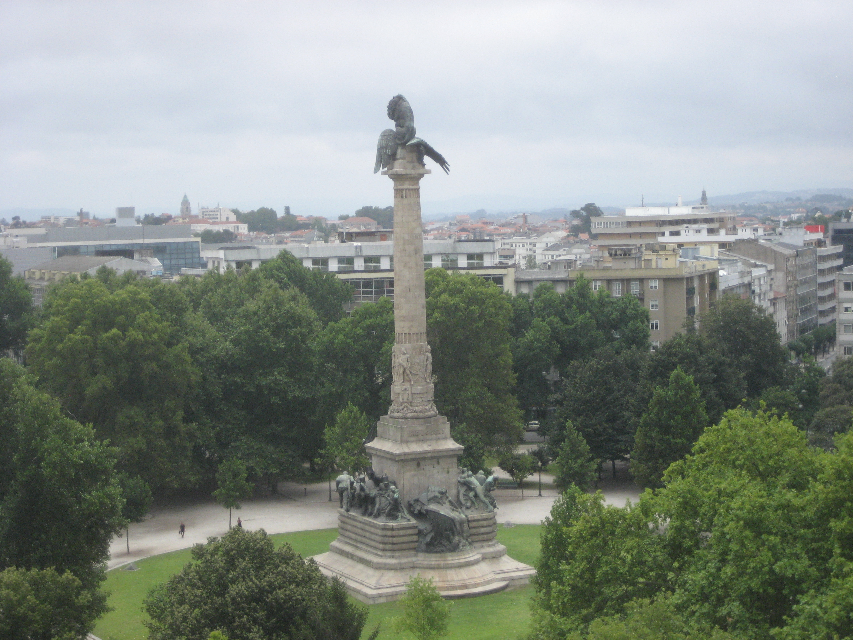 Monument for the heroes of the peninsular war (1808-1814), Rotunda da Boavista (officially Praça de Mouzinho de Albuquerque), Porto (Portugal)